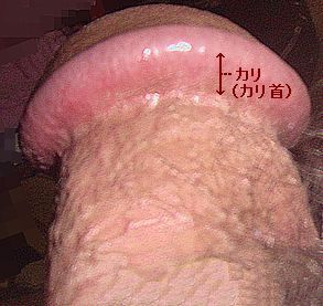 corona of glans penis